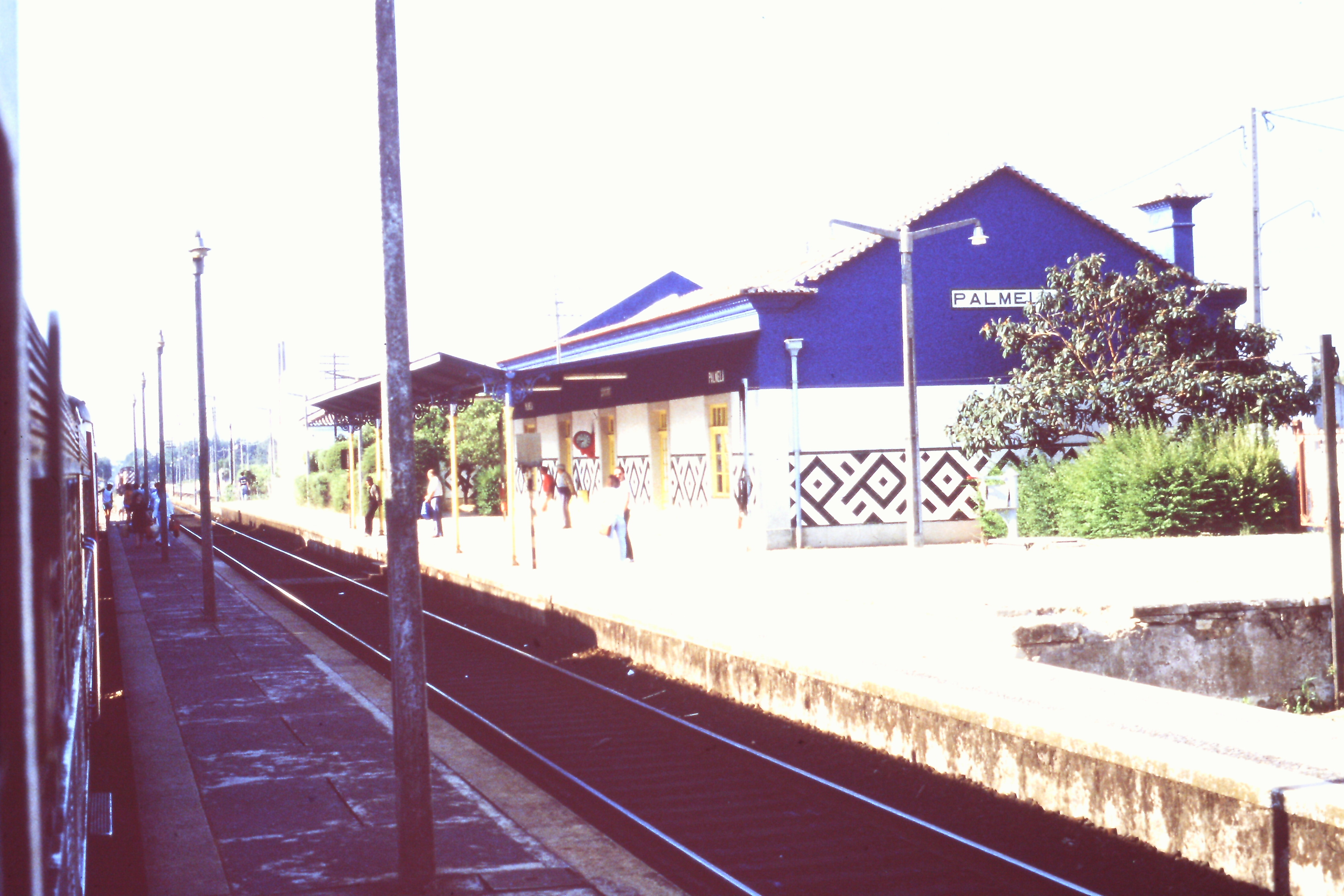 Palmela train station, Portugal